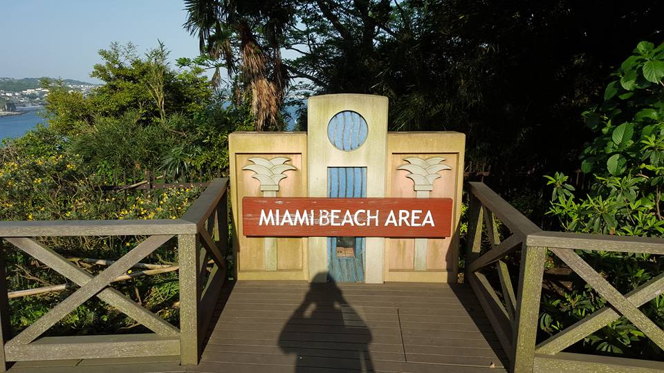 Miami Beach Area Monument erected in Samuel Cocking Garden, at the top of Enoshima, Fujisawa, Japan. Miami Beach, Florida and Fujisawa cities have been sisters since 1959.